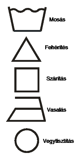 Care symbols for textiles according to EN ISO 3758:2005. - Mosás=Washing, Fehérítés=Bleaching, Szárítás=Dyeing, Vasalás=Ironing, Vegytisztítás=Dry cleaning